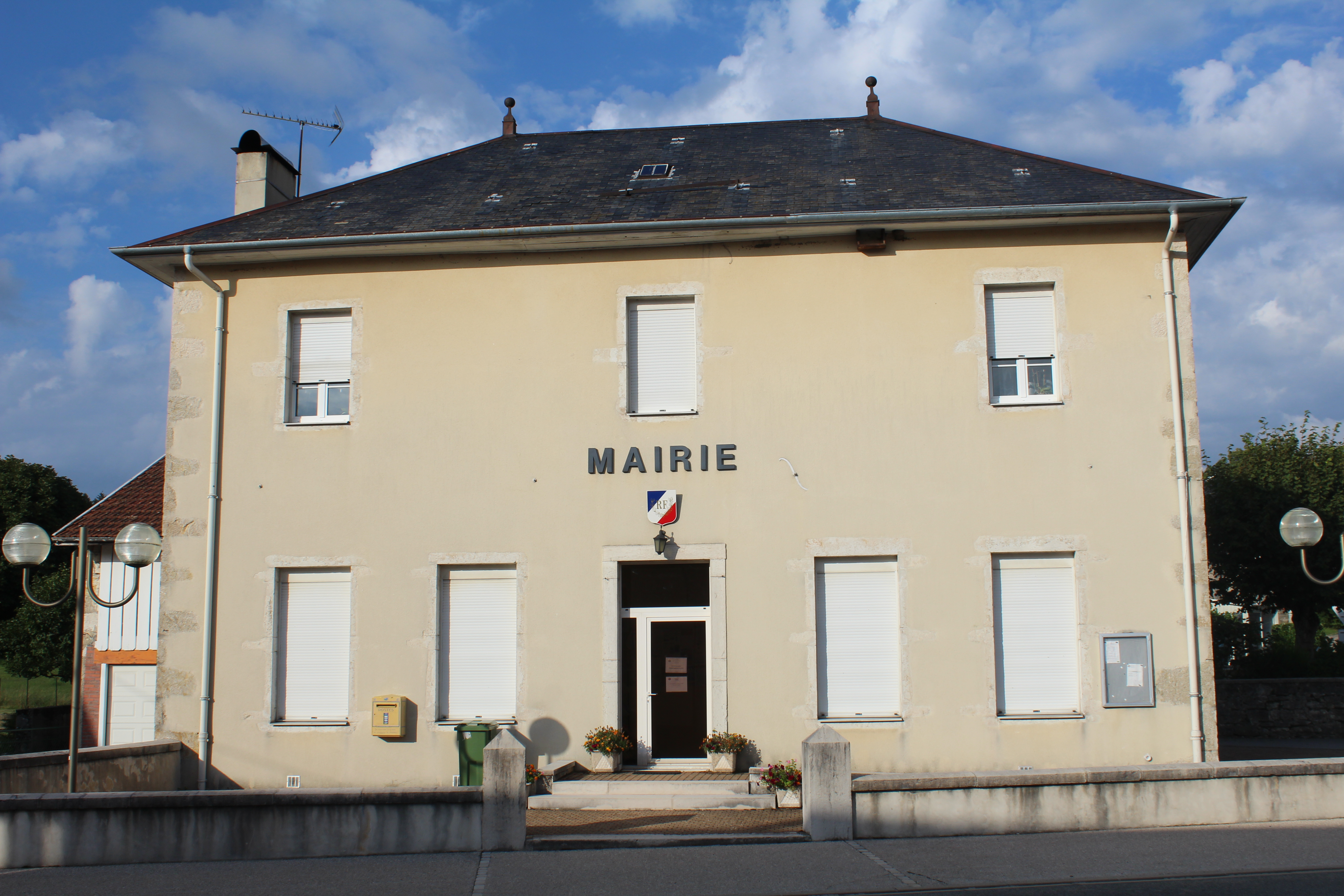 Unknown language: Mairie de Corlier.